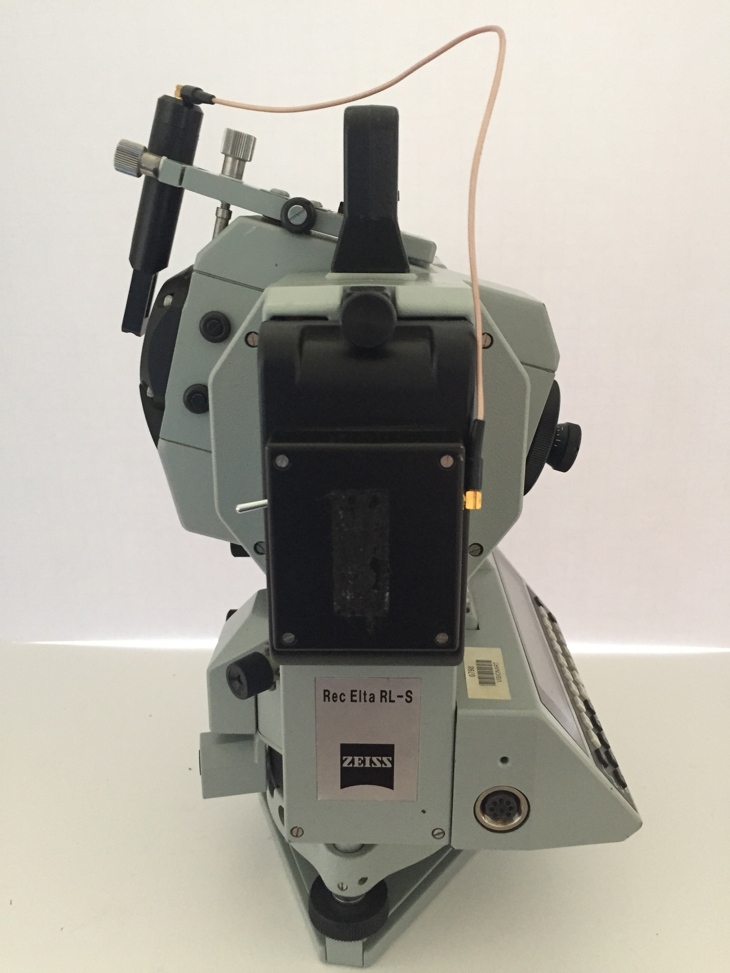 VisionArt Zeiss Rec Elsa RL-S laser survey head